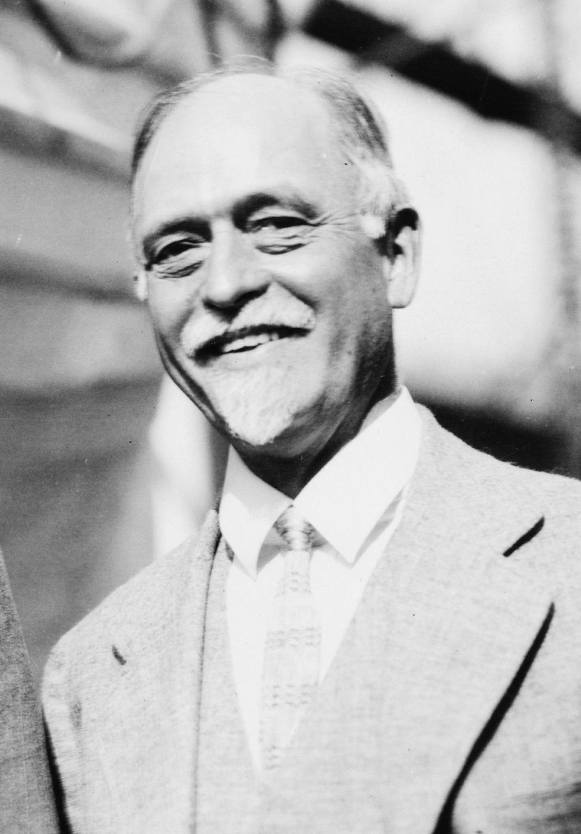 Irving Fisher. Cropped from LOC photo, record for which appears below. TITLE: Prof. Irving Fisher of Yale, & son Irving / photo. by Bain News Service, New York. CALL NUMBER: BIOG FILE - Fisher, Prof. Irving [P&P] REPRODUCTION NUMBER: LC-USZ62-101512 (b&w film copy neg.) No known restrictions on publication. SUMMARY: Posed, half-length portrait, standing. MEDIUM: 1 photographic print. CREATED/PUBLISHED: 1927 NOTES: George Grantham Bain Collection. SUBJECTS: Fisher, Irving, 1867-1947. Fathers & children--1920-1930. Families--1920-1930. FORMAT: Group portraits 1920-1930. Portrait photographs 1920-1930. Photographic prints 1920-1930. DIGITAL ID: (b&w film copy neg.) cph 3c01512 CARD #: 90711696